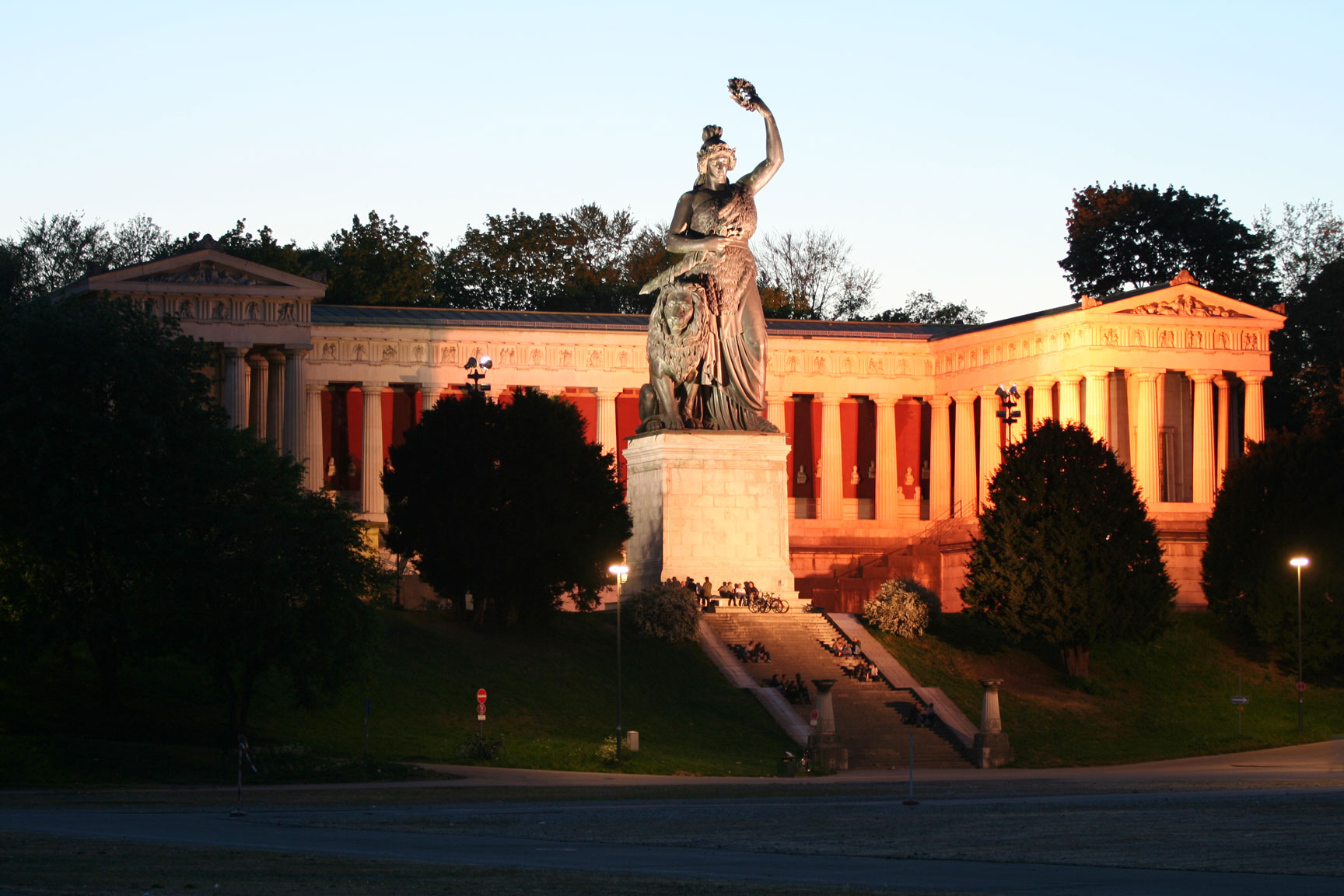 Bavaria Statue and Hall of Fame on Theresienwiese, Munich